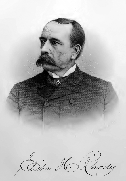 Portrait of Elisha Hunt Rhodes, copied from The Union Army; A History of Military Affairs in the Loyal States, 1861–65 — Records of the Regiments in the Union Army — Cyclopedia of Battles — Memoirs of Commanders and Soldiers, Federal Publishing Company (Madison, Wisconsin), 1908. Volume 1, p. 228.